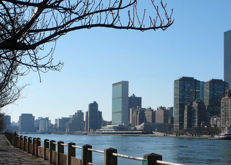 East River and UN (Roosevelt Is, NY; Dec 2006)